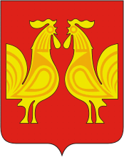 Petushki (Vladimir oblast), coat of arms